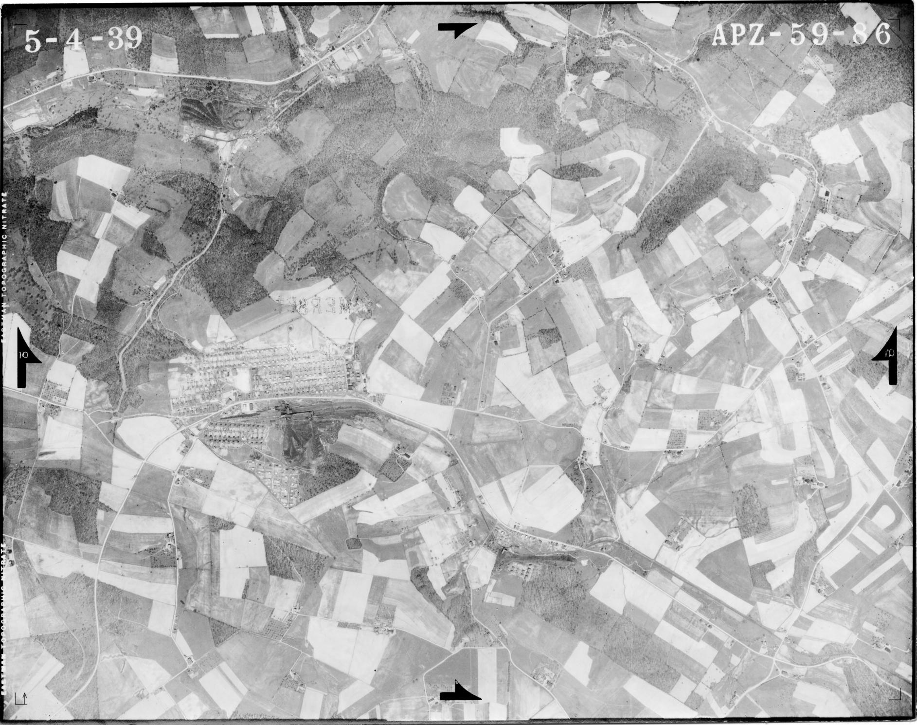 Aerial photograph of Jerome, Pennsylvania and vicinity, taken May 4, 1939.